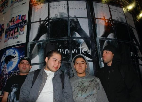 Shot outside the Whiskey A Go Go in Hollywood, Calif.